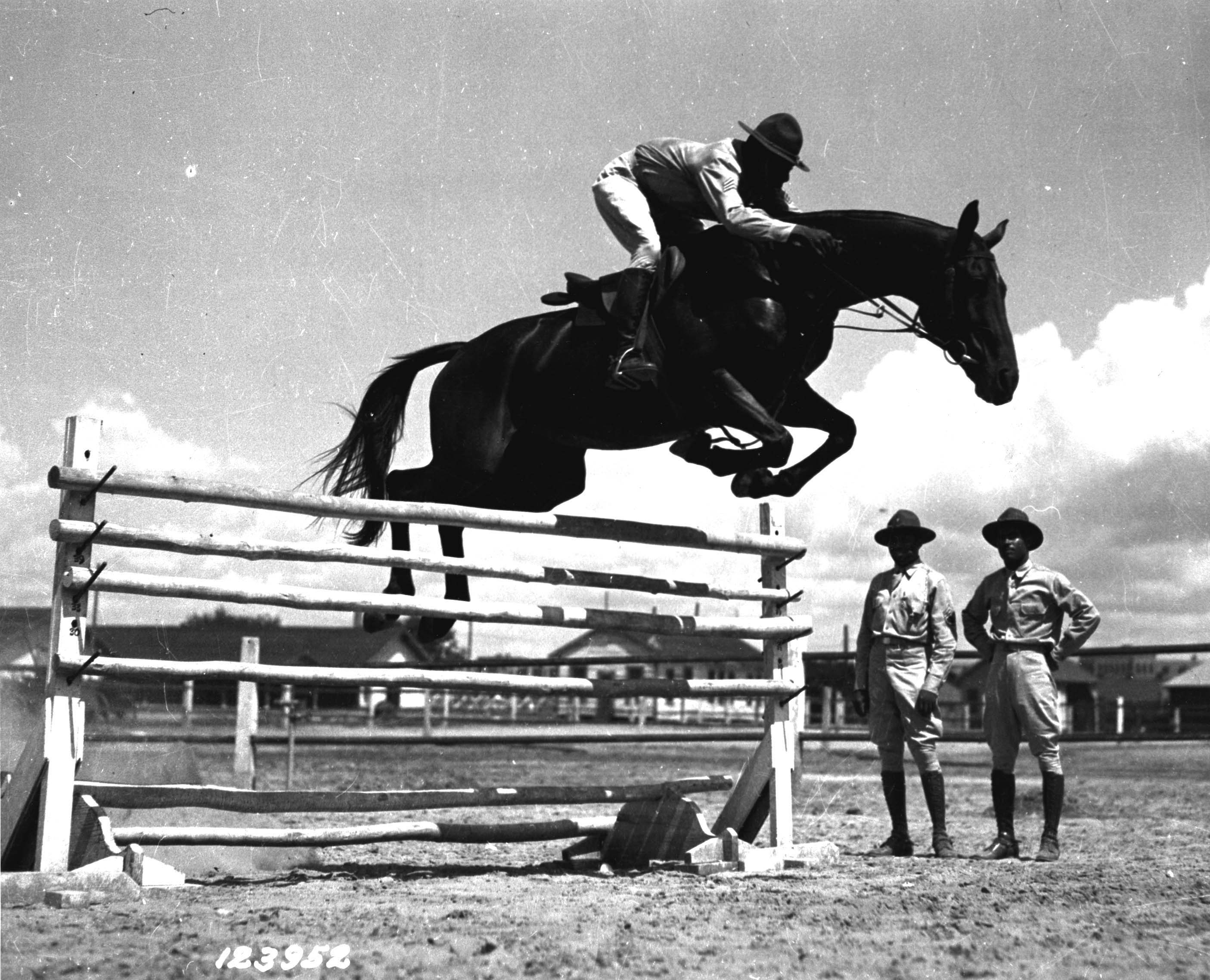 Sgt. John Hill rides Jumping Dan Ware, the finest jumping horse in the infantry stables at Ft. Benning, Ga., July 25, 1941